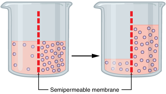 Caption: Osmosis is the diffusion of water through a semipermeable membrane down its concentration gradient. If a membrane is permeable to water, though not to a solute, water will equalize its own concentration by diffusing to the side of lower water concentration (and thus the side of higher solute concentration). In the beaker on the left, the solution on the right side of the membrane is hypertonic. URL: Version 8.25 from the Textbook OpenStax Anatomy and Physiology Published May 18, 2016 The factual accuracy of this file is disputed. See Talk page, --Burkhard--Burkhard (talk) 16:53, 14 November 2016 (UTC)